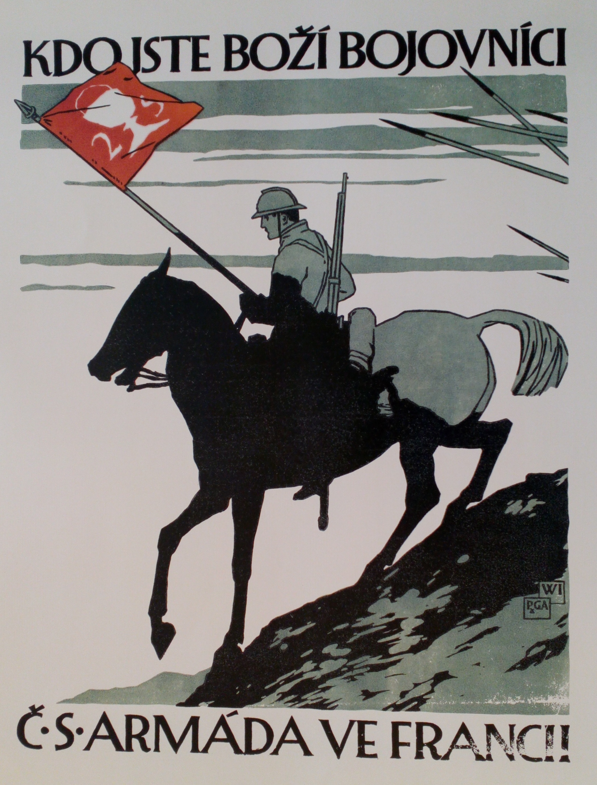 Who are the God's fighters / CS Army in France